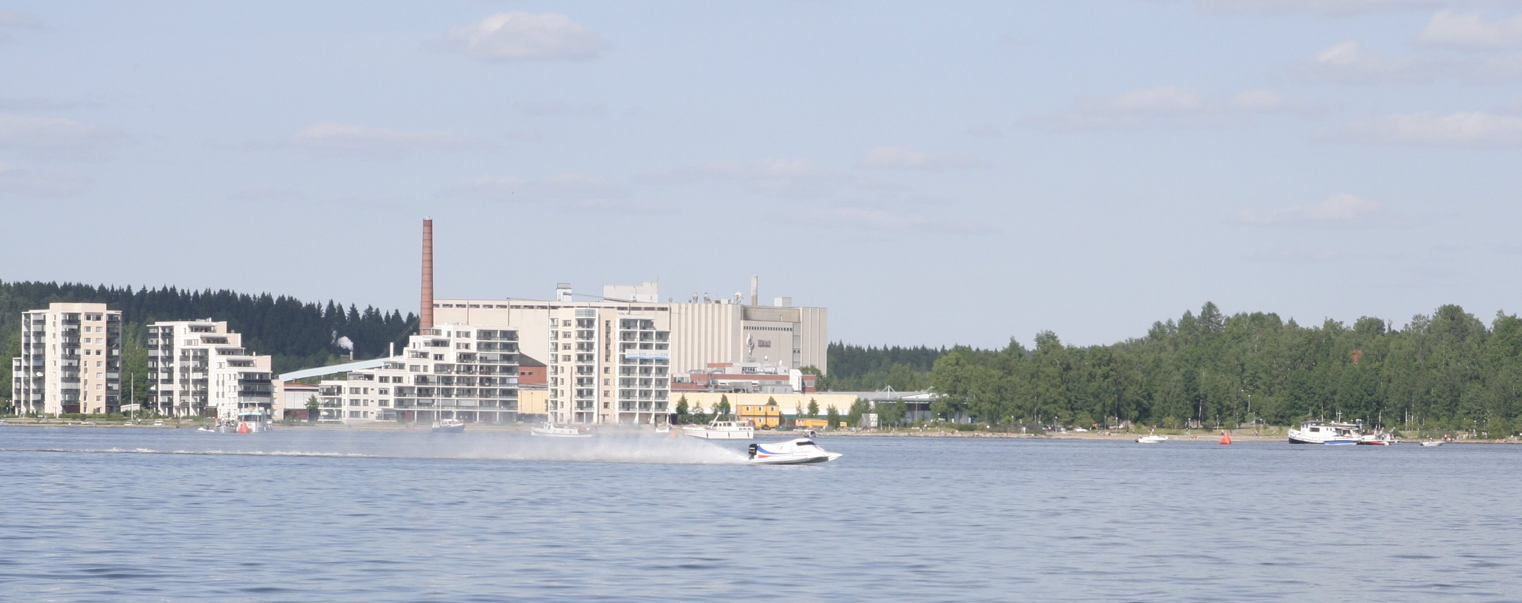 F1 Powerboat Racing, Lahti, Finland Canon EOS 350D, Sigma DG 28-70mm, 1:2.8 EX, Olli-Jukka Paloneva, paloneva phnet.fi _MG_0824.JPG